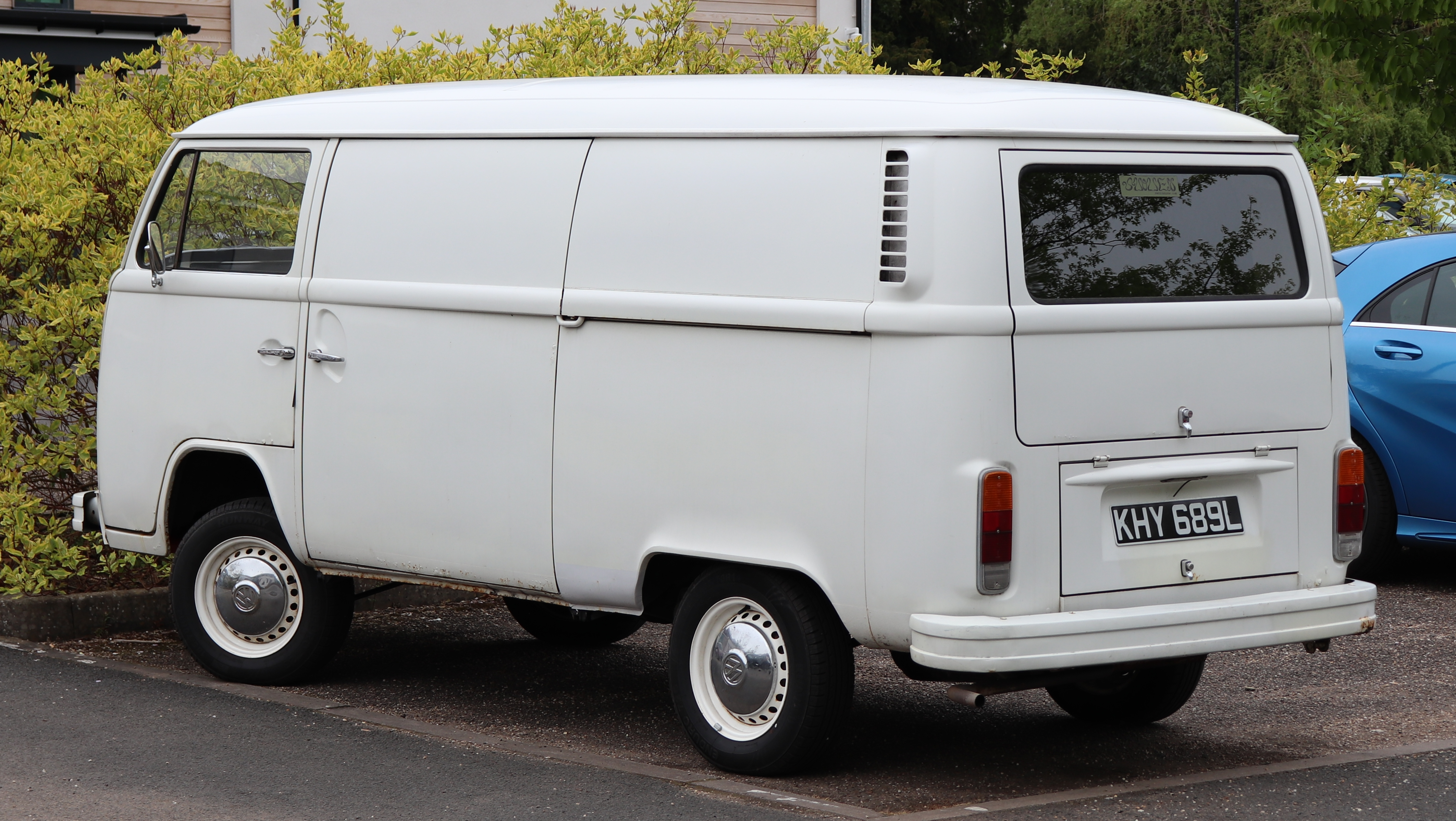 1972 Volkswagen Delivery Van 1.6 Rear Taken in Leamington Spa